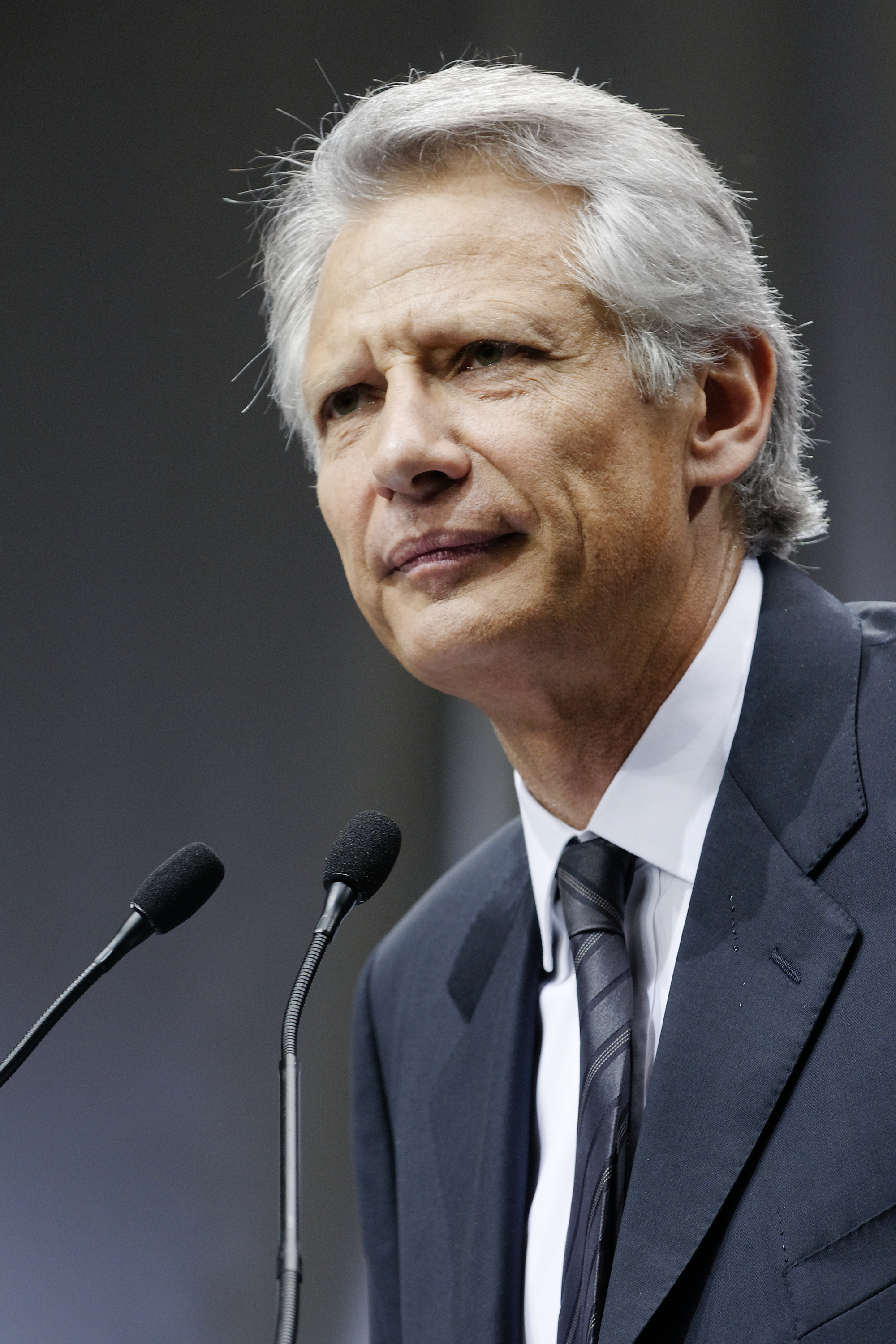 Dominique de Villepin at the launch of his new party, République Solidaire. Paris, Halle Freyssinet.